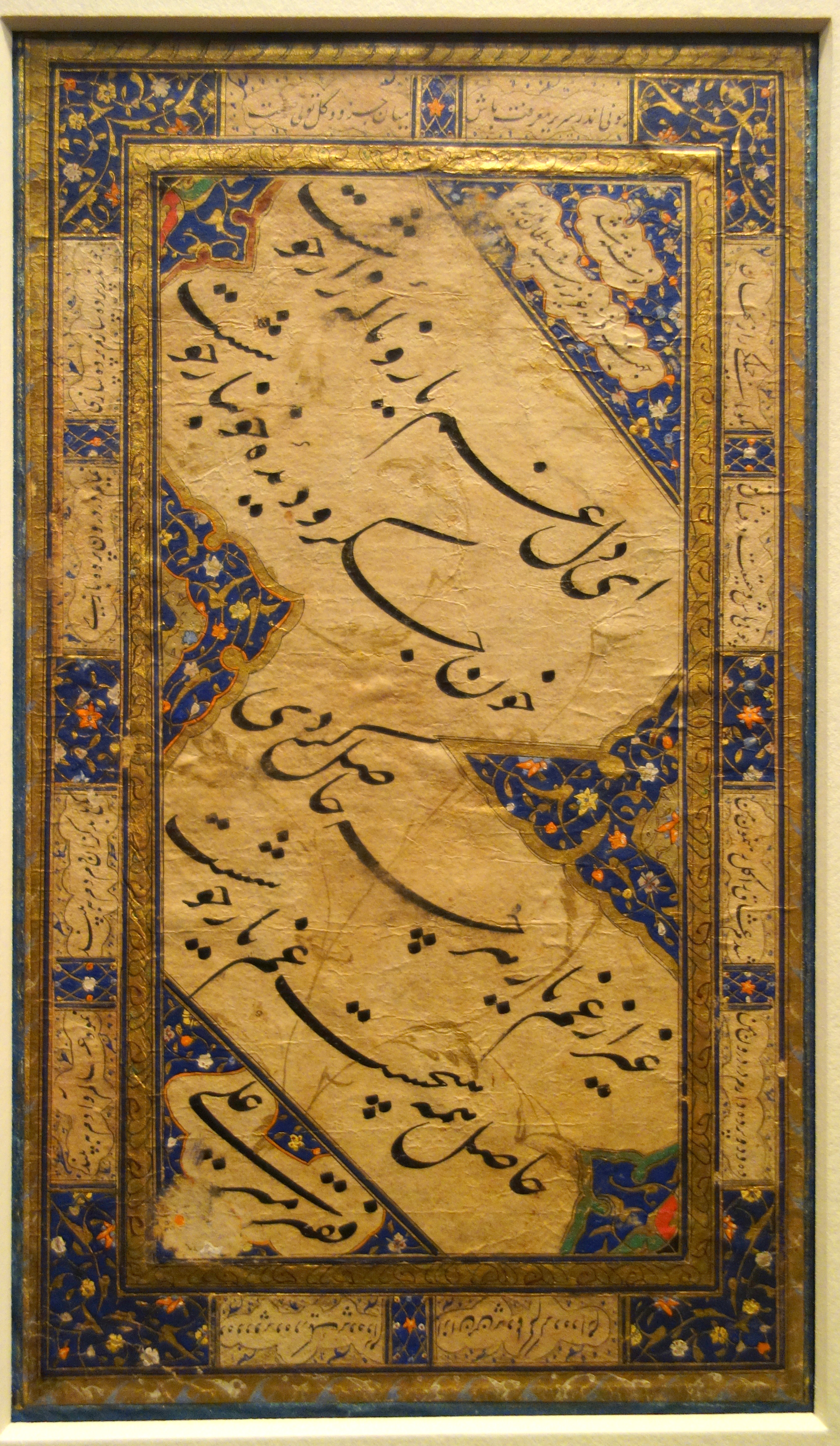 Exhibit in the Cincinnati Art Museum, Cincinnati, Ohio, USA. This artwork is in the public domain because the artist died more than 70 years ago.